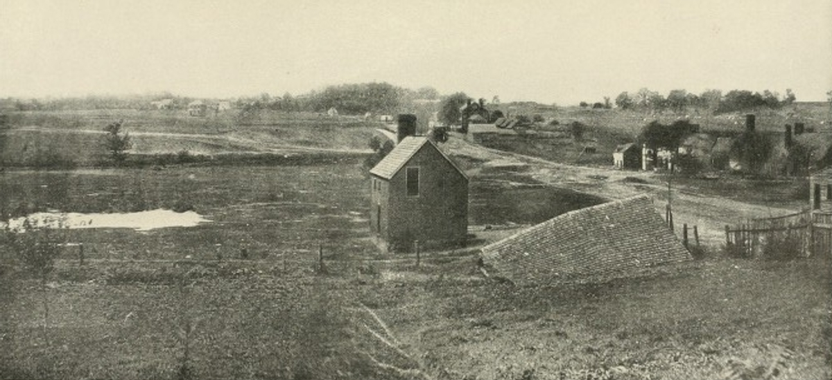 Western view from Fredericksburg down Telegraph Road with Marye's Heights visible in the distant center. Several Union divisions would march down this road during the Battle of Fredericksburg to assault the Confederate positions on the heights unsuccessfully. Eventually, they would retreat back down this road after being decimated.